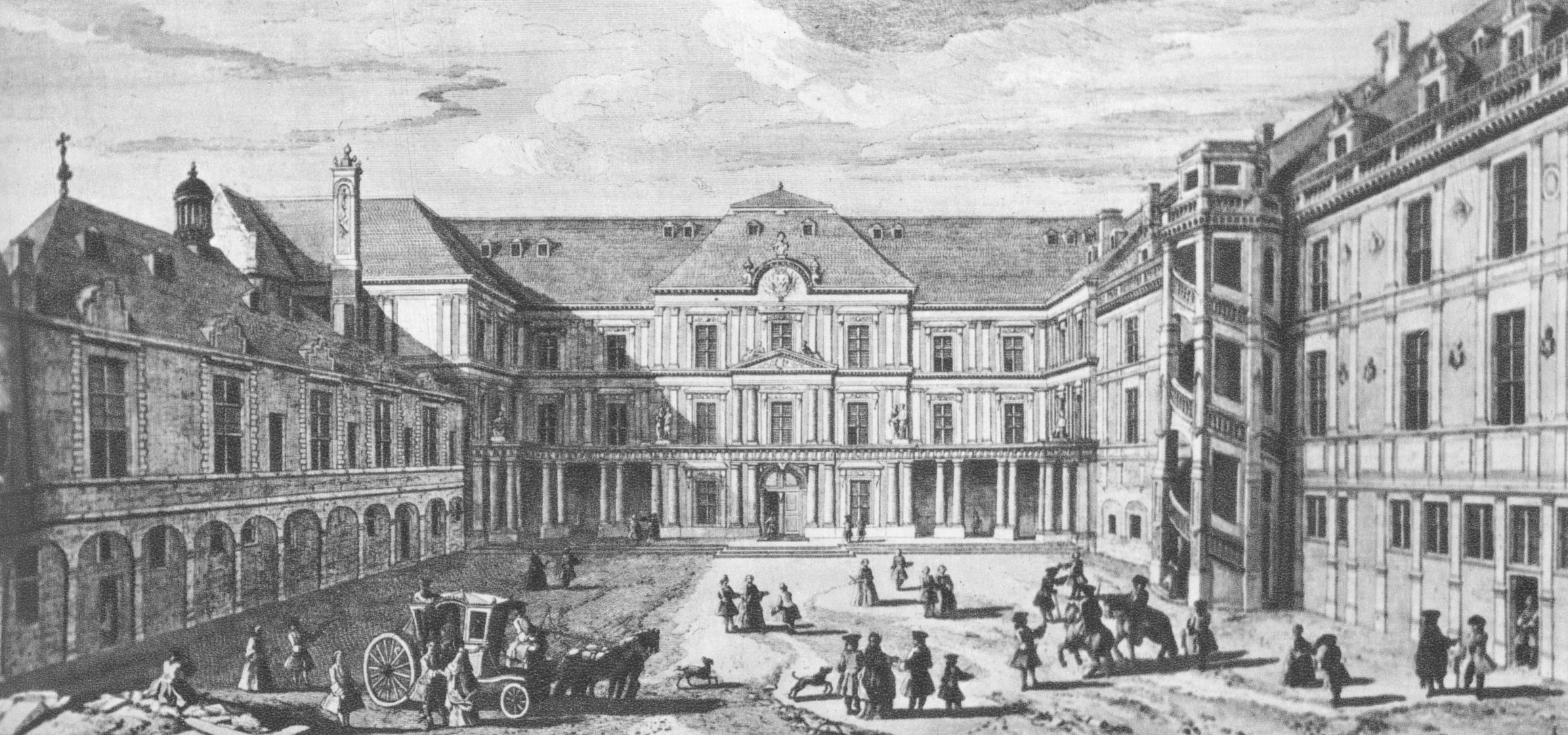 Engraving of the Château de Blois